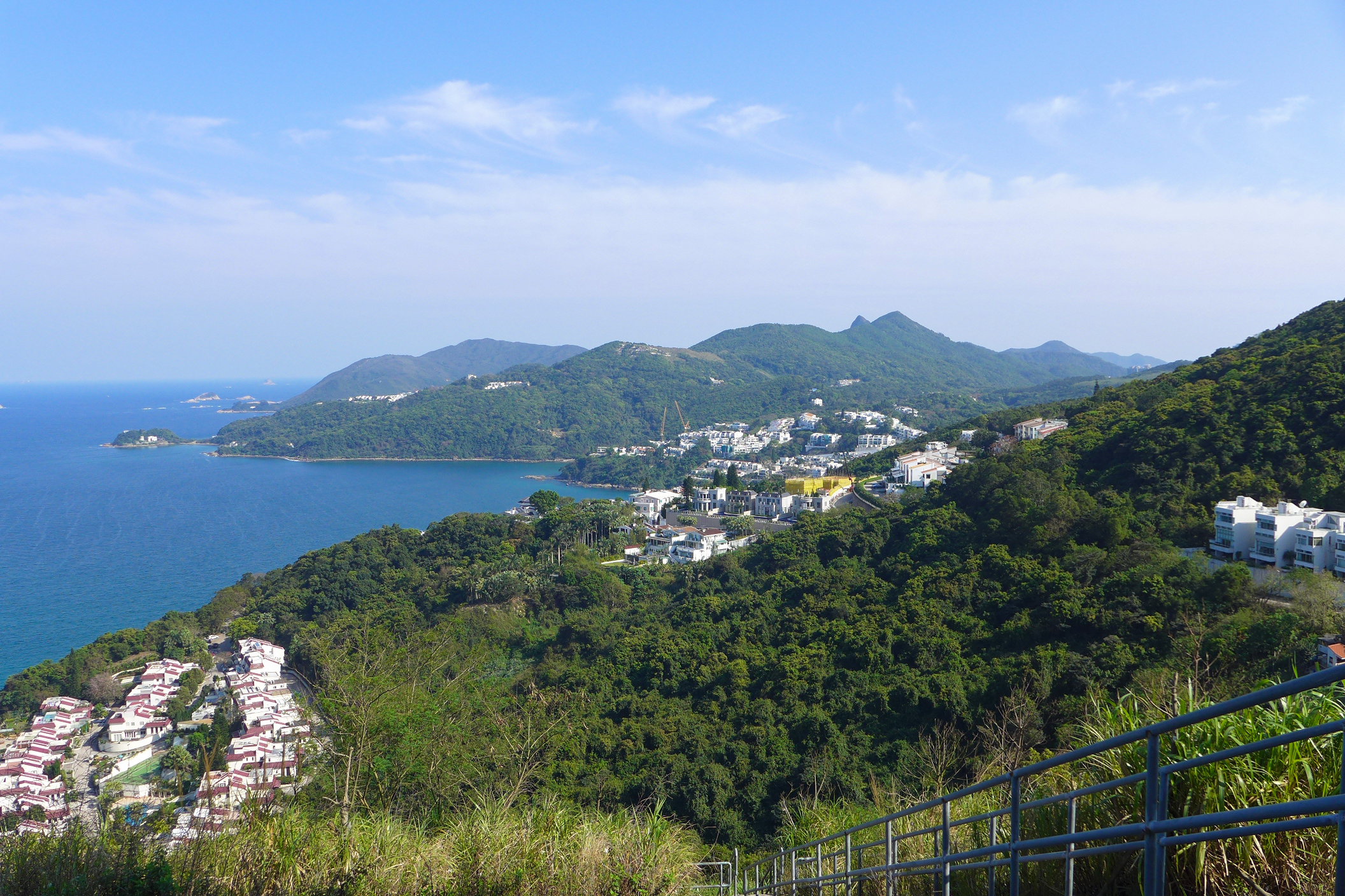 Silverstrand apartments